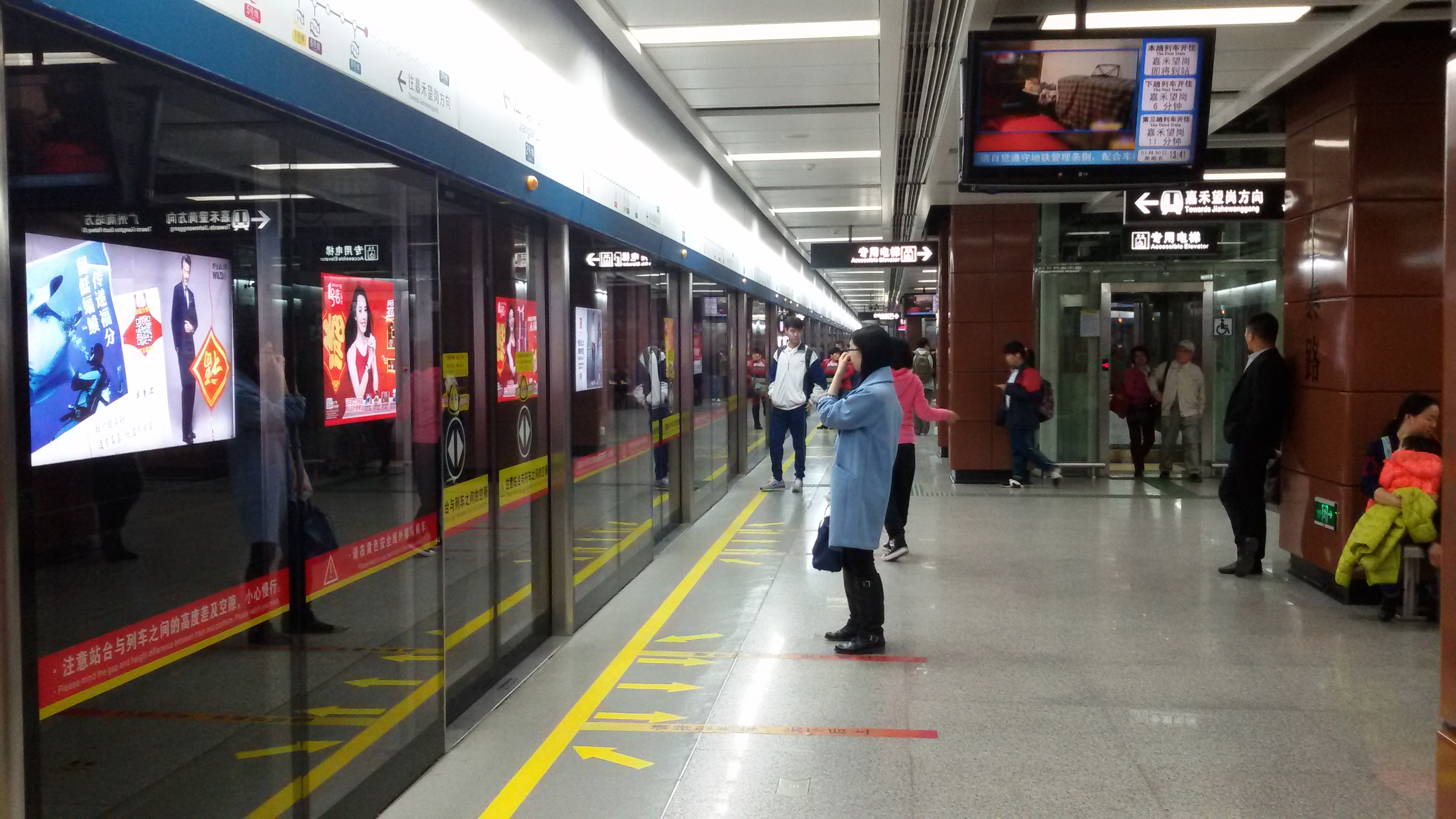 Station Platform (Towards GZSRS) for Jiangtai Lu Station in Guangzhou Metro.